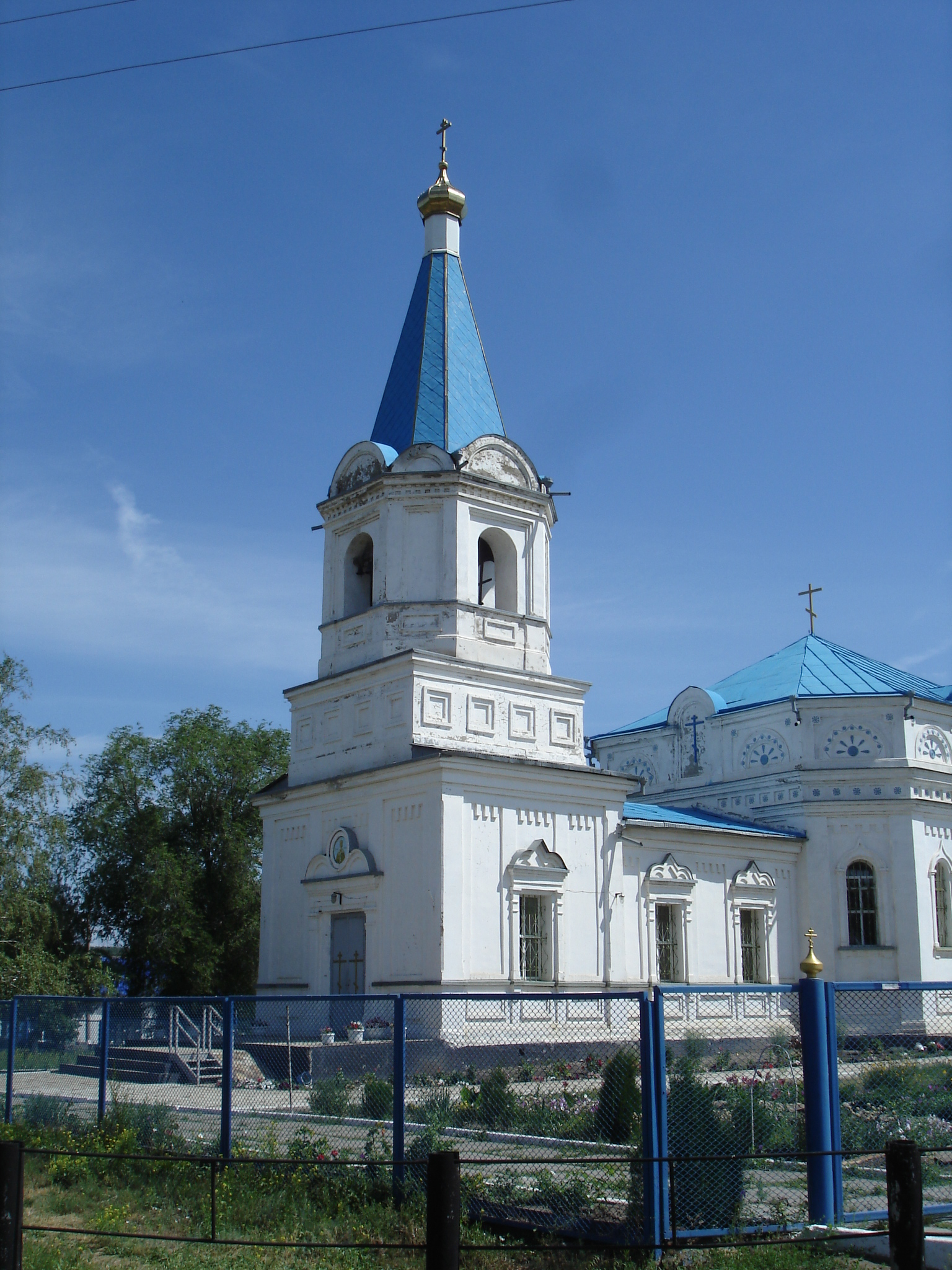 Church belfry in Bogdanov village, Kamenskiy rayon, Rostovskaya oblast, Russia